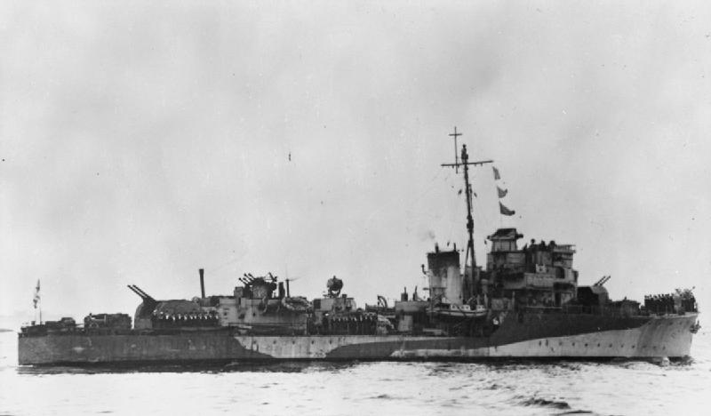 Photograph of Hunt class destroyer HMS Quantock.